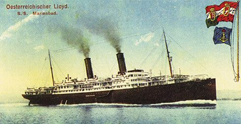 Ship Marienbad on the poscard (cca 1913)